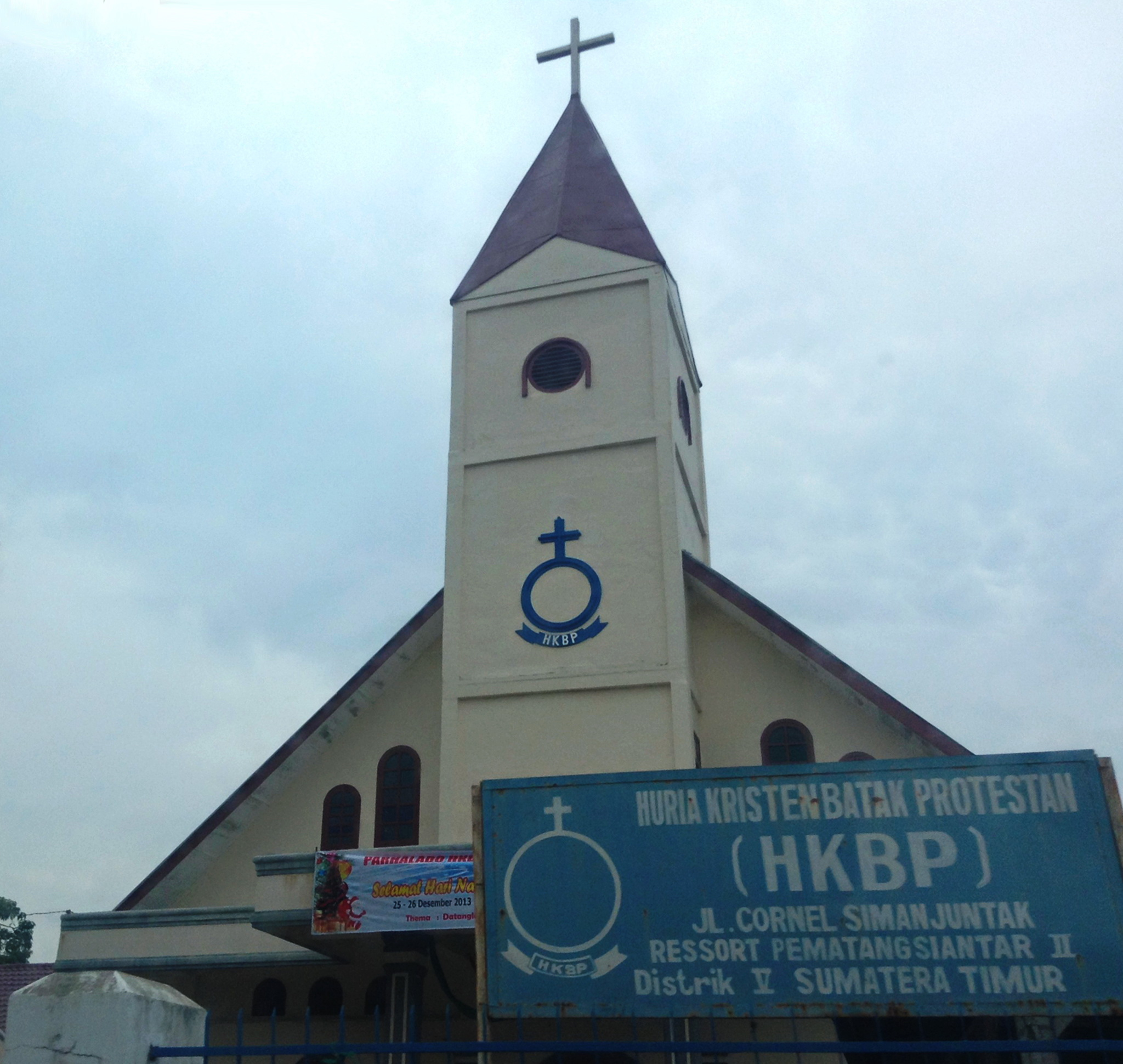 HKBP Pematangsiantar II (Jl. Cornel Simanjuntak), Church in Siantar Marimbun, Pematangsiantar